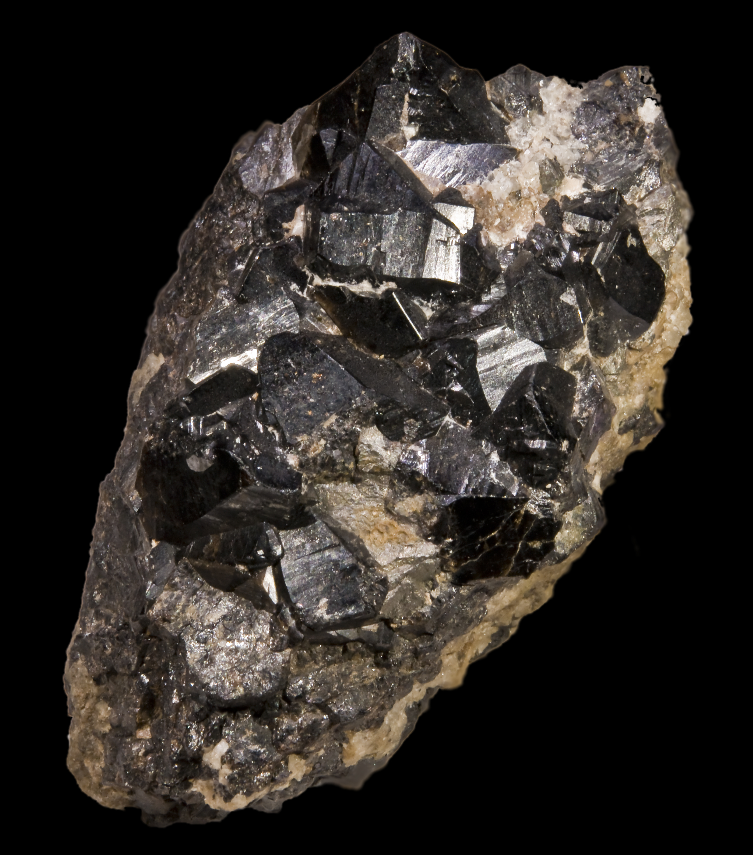 Cassiterite - Horní Slavkov (Schlaggenwald), Karlovy Vary Region, Bohemia (Böhmen; Boehmen), Czech Republic (7.4x4.5cm)